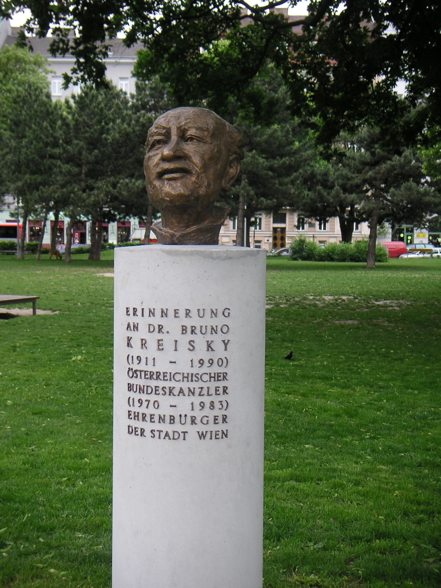 Bruno Kreisky bust in 'Bruno Kreisky Park', Vienna, Austria